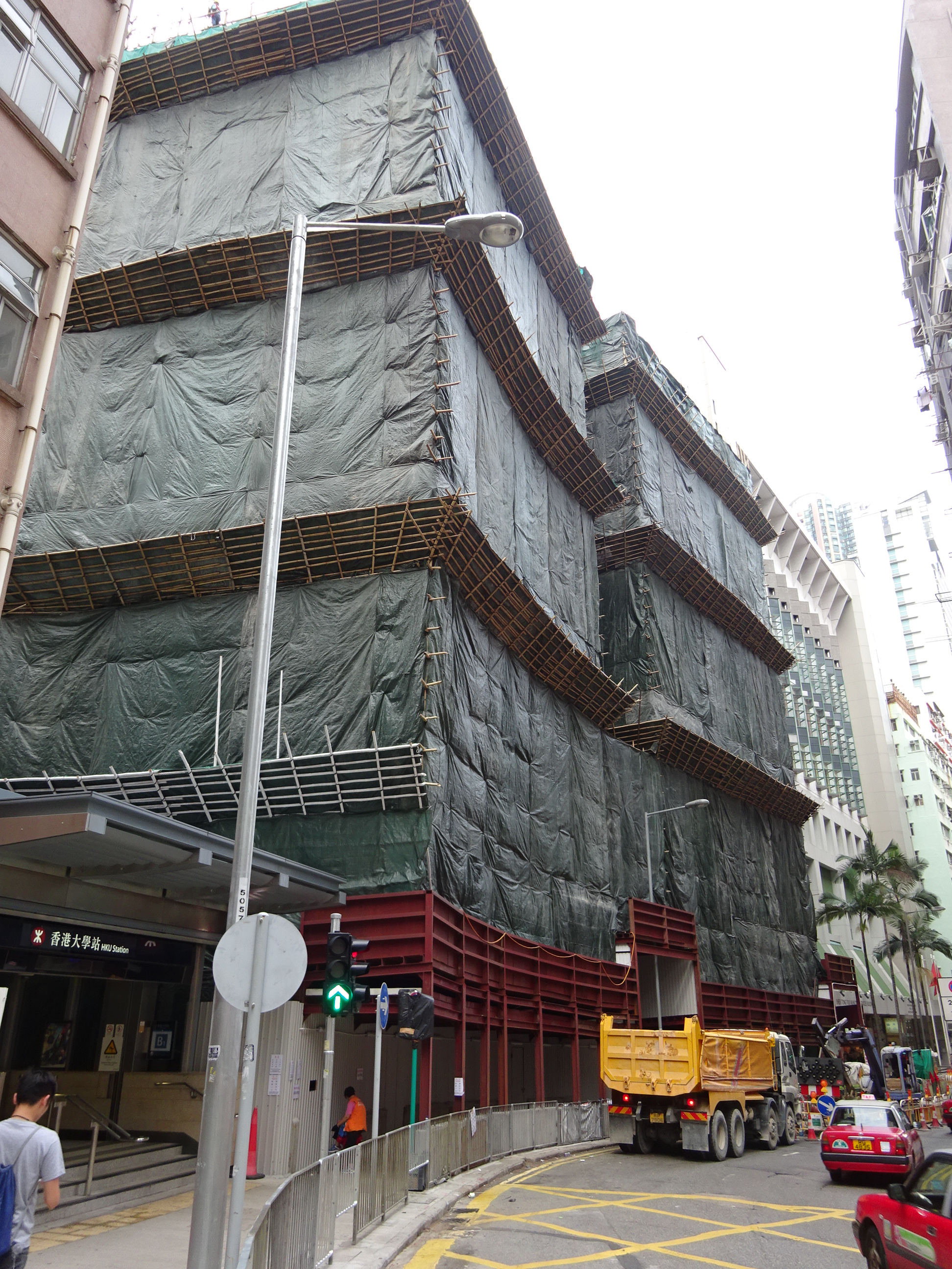 Queen's Road West, Sai Ying Pun, Hong Kong